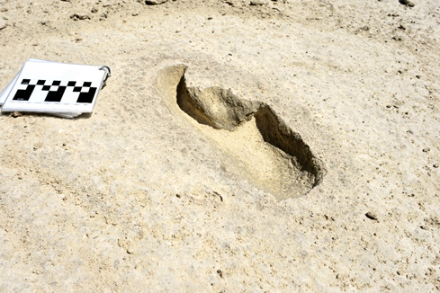 Fossil footprint of a Harlan's ground sloth, White Sands National Park, New Mexico, United States